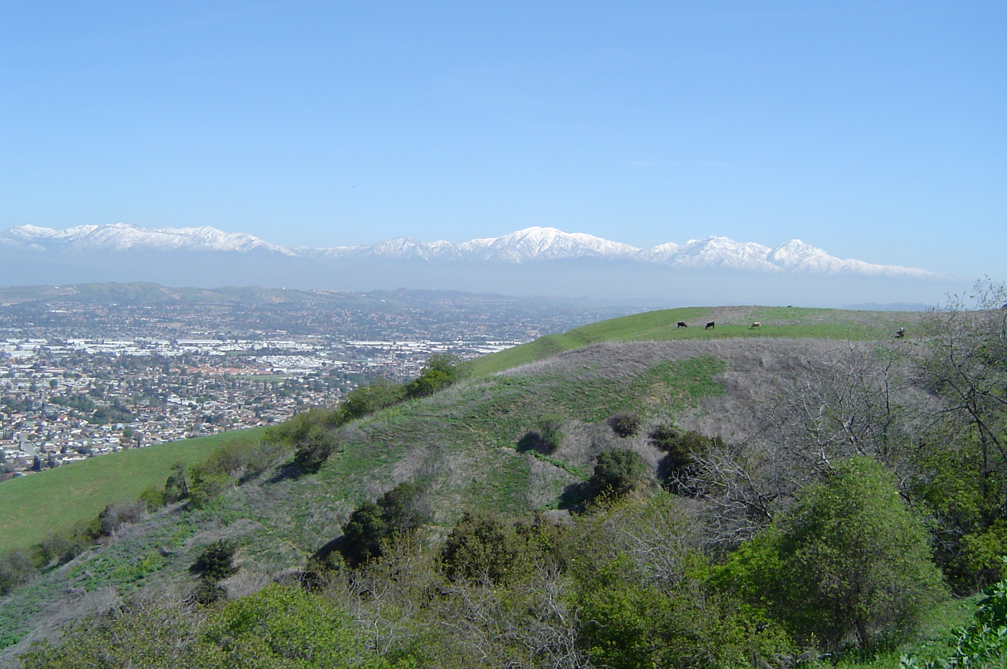 View from the Puente Hills of the San Gabriel Mountains — seen from the Rowland Heights area, Los Angeles County, Southern California. Overlooking the eastern San Gabriel Valley. The white warehouse roofs from City of Industry stand out from residential tiles.